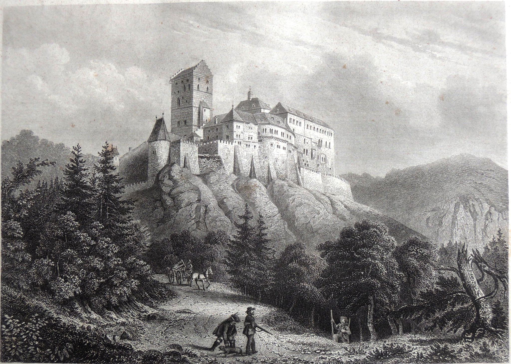 Karlsteun castle (Czech Republic, est. 1348), c. 1860